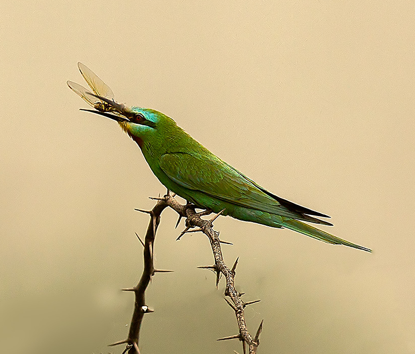 The Blue-cheeked bee-eater (Merops persicus) With Dragon fly kill From Basai